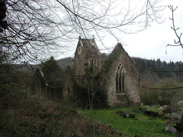 Chapel Hill (Llanandras) Ruins of St Mary's Church. These ruins stand on a hillside high above the ruins of Tintern Abbey.